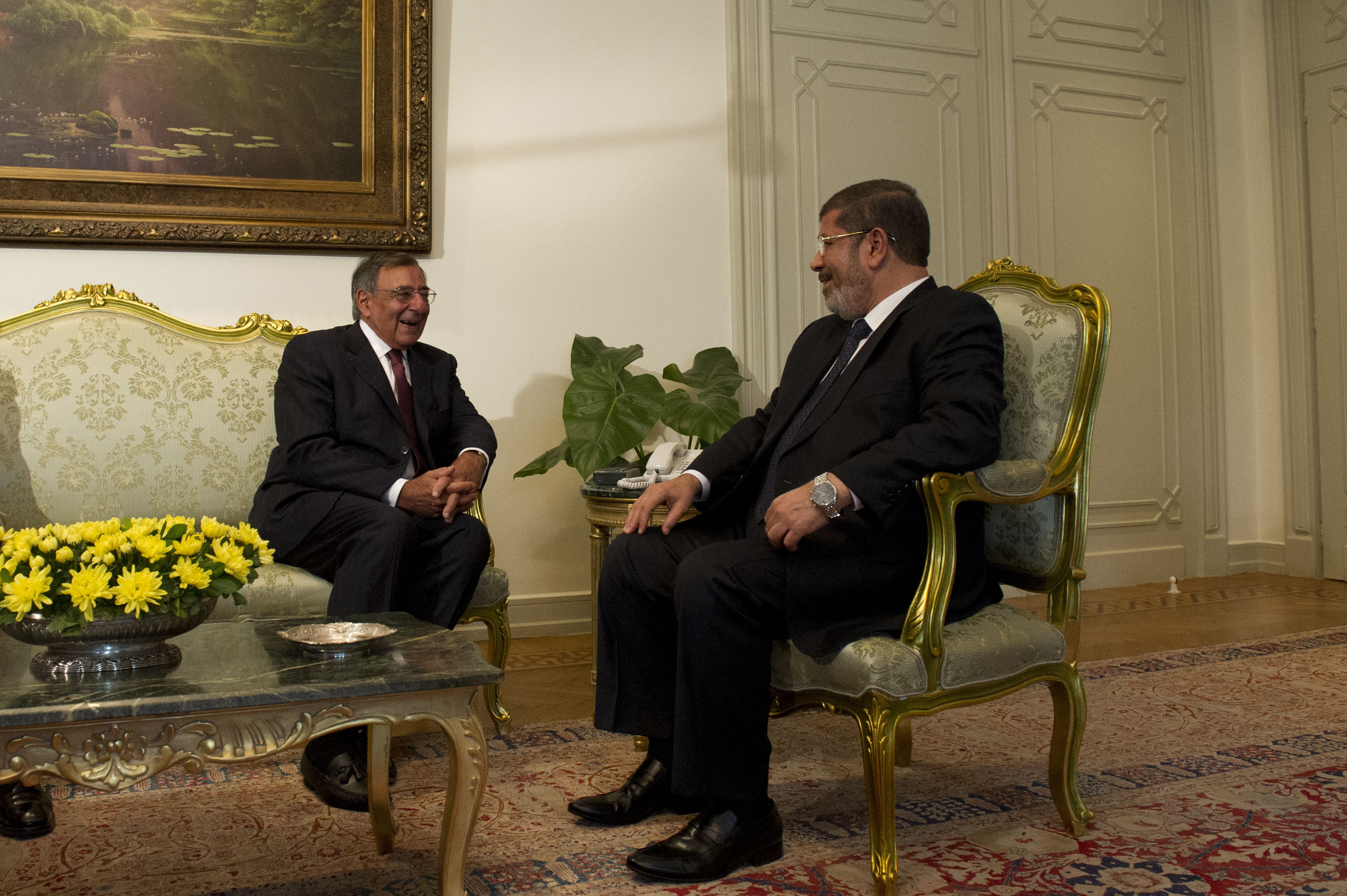 Secretary of Defense Leon E. Panetta, left, meets with Egyptian President Muhammad Mursi in Cairo, Egypt, July 31, 2012. Panetta is on a 5-day trip to the region, stopping in Tunisia, Egypt, Israel and Jordan to meet with senior leaders and counterparts